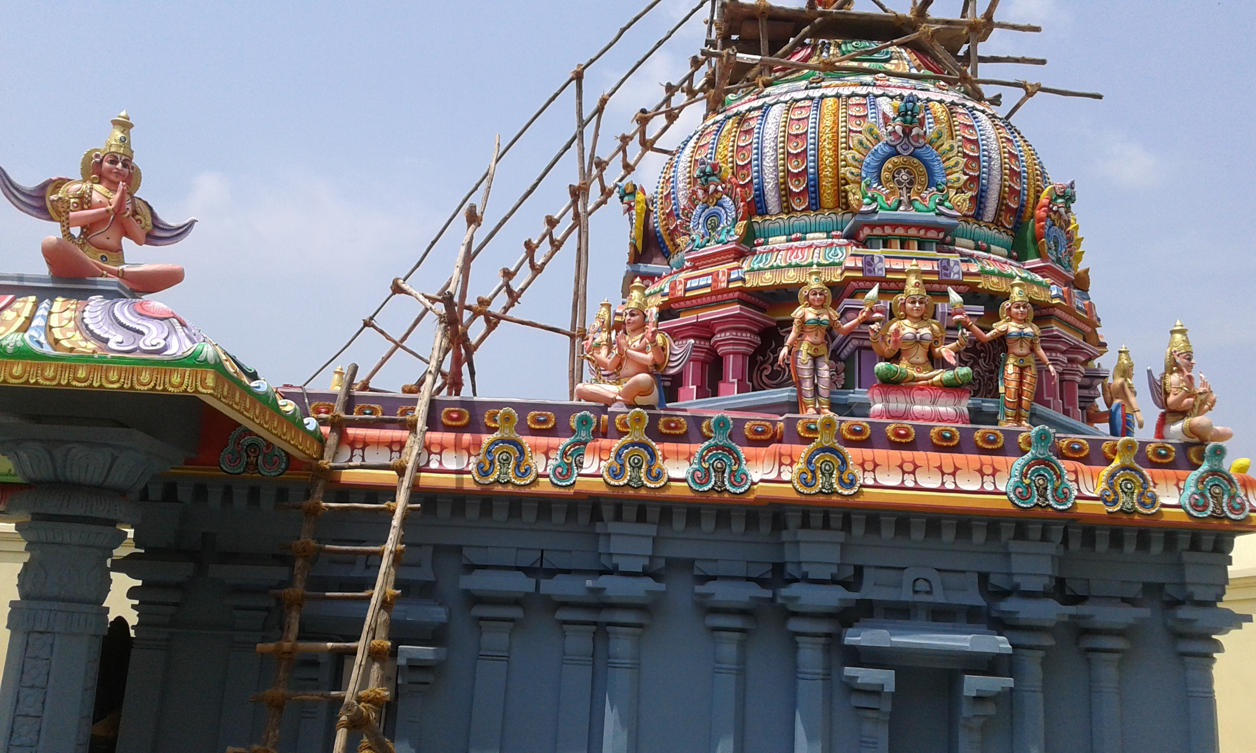 Thiruppaarththanpalli